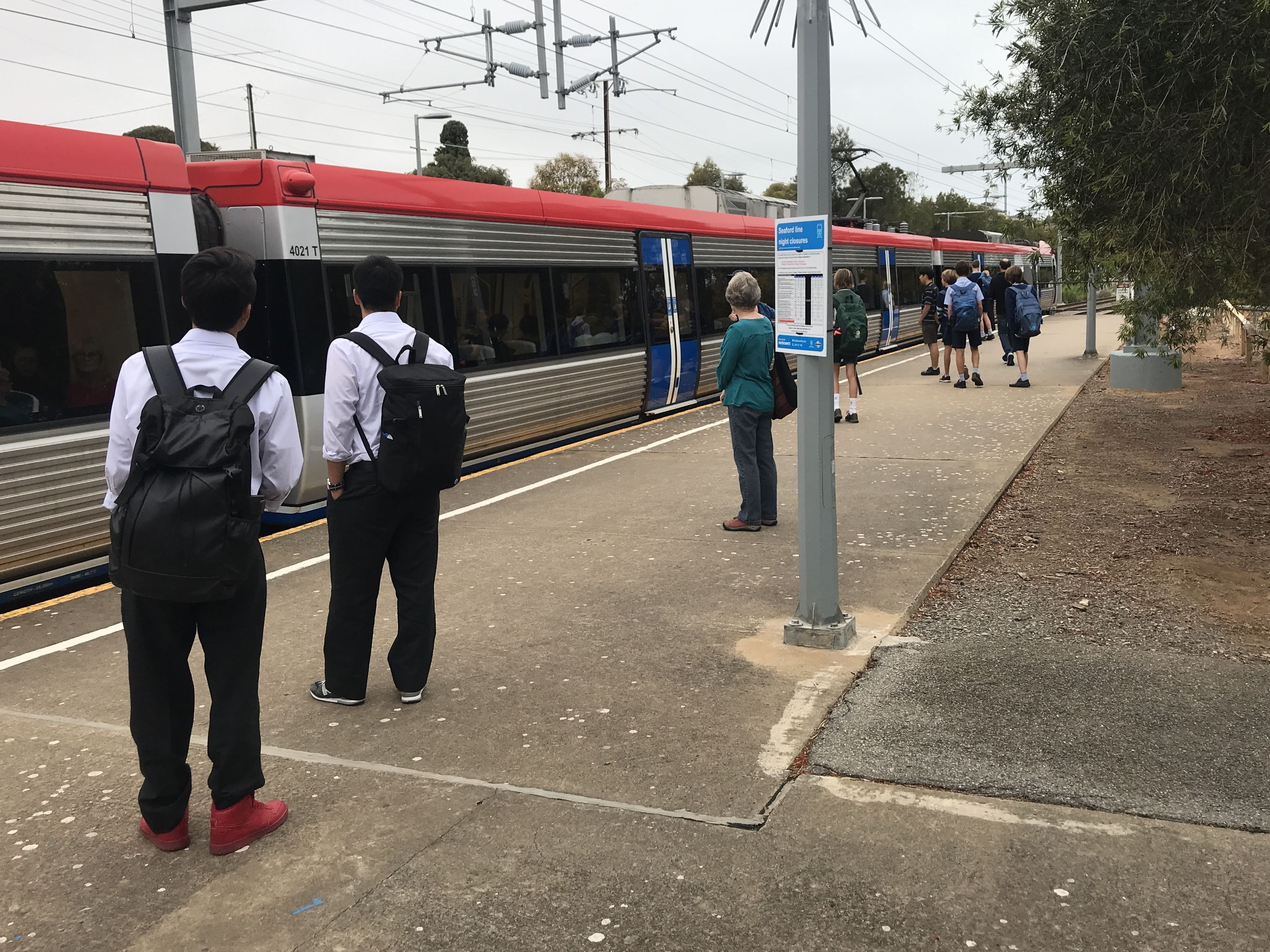 Marino Rocks community and school children using the station